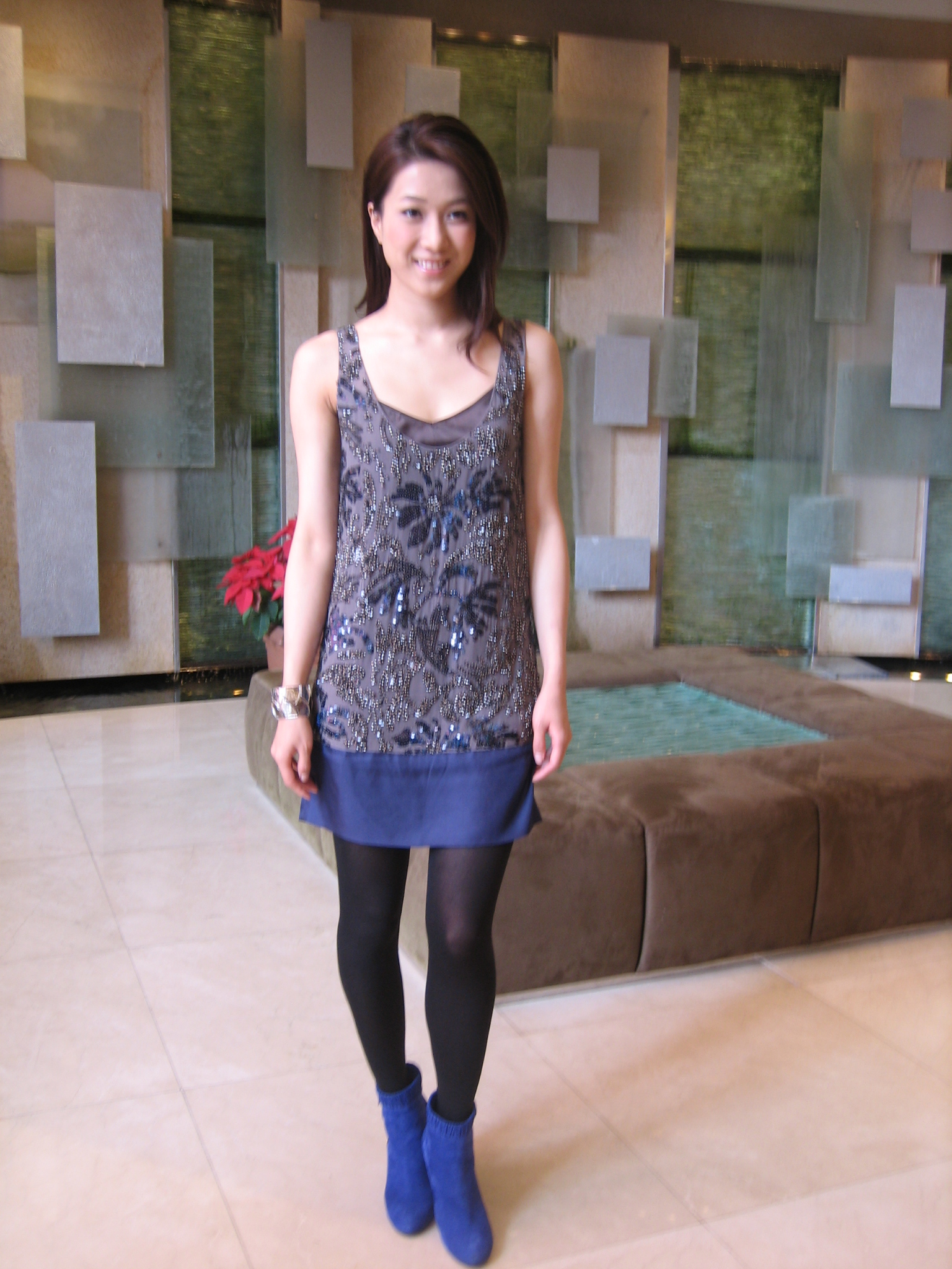 linda chung in kowloon bay